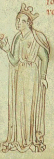 Isabella of England